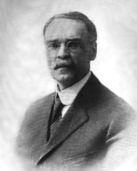 George Edward White (14 October 1861 - 27 April 1946) was a Christian Missionary, President of the Anatolia College in Merzifon, and an important witness to the Armenian Genocide.